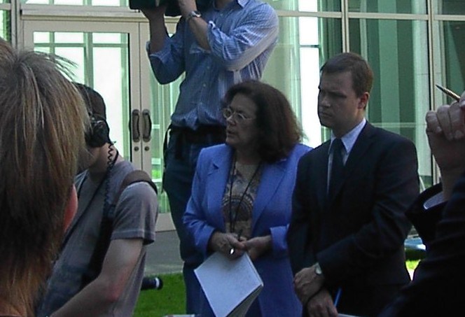 Photo by User:Adam Carr, November 2002